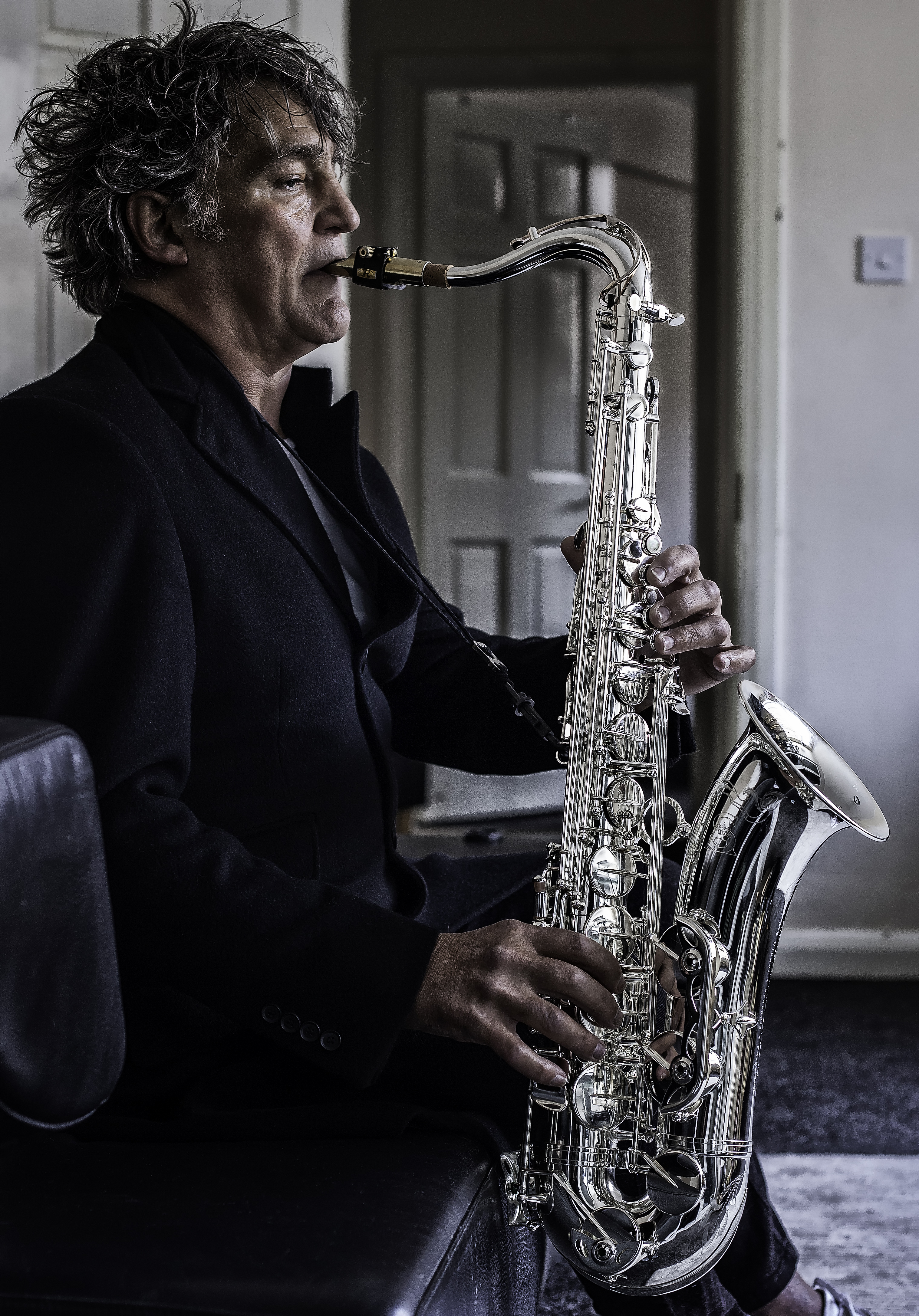 Raphael Ravenscroft playing on an Adolphe Sax & Cie tenor saxophone. This was the last project he was involved in.